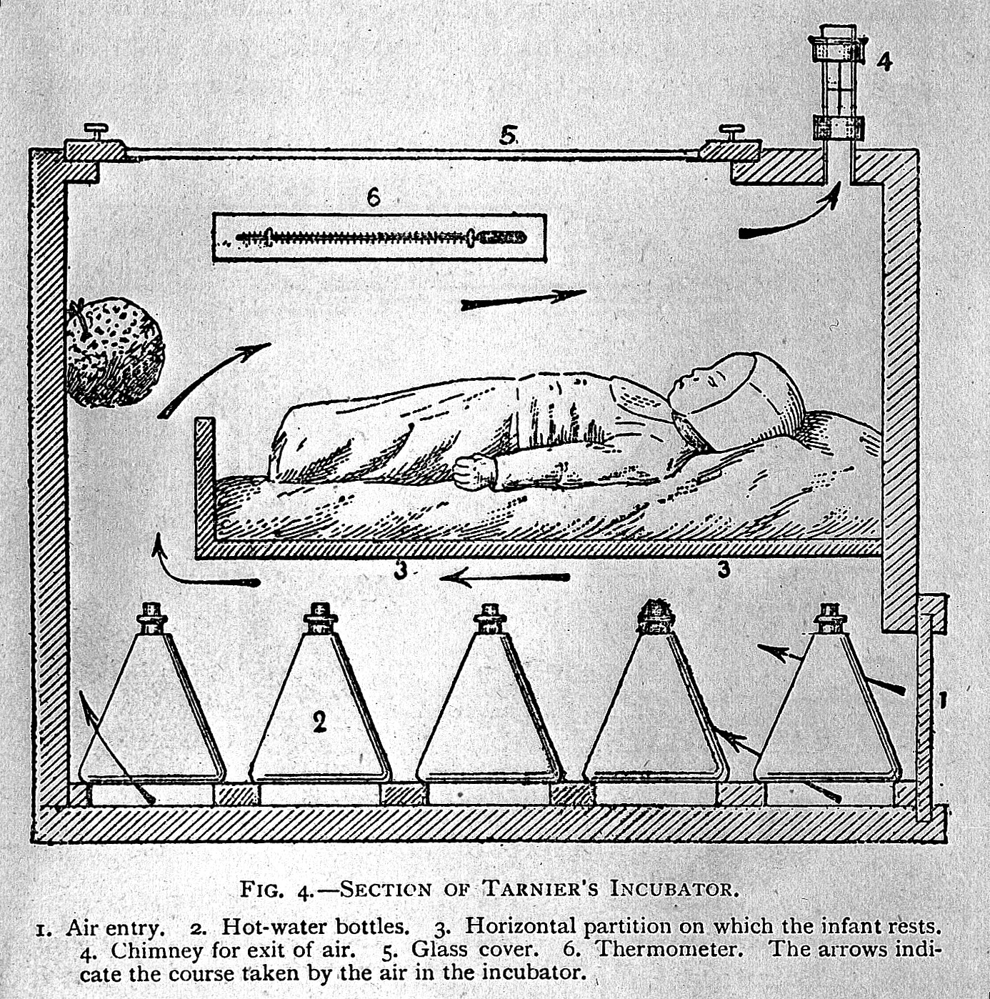 Section of Tarnier's incubator General Collections Keywords: incubator; neo-natal care; paediatric medicine; Nursing; Premature Birth; Child Welfare; Incubators; Stephane Tarnier